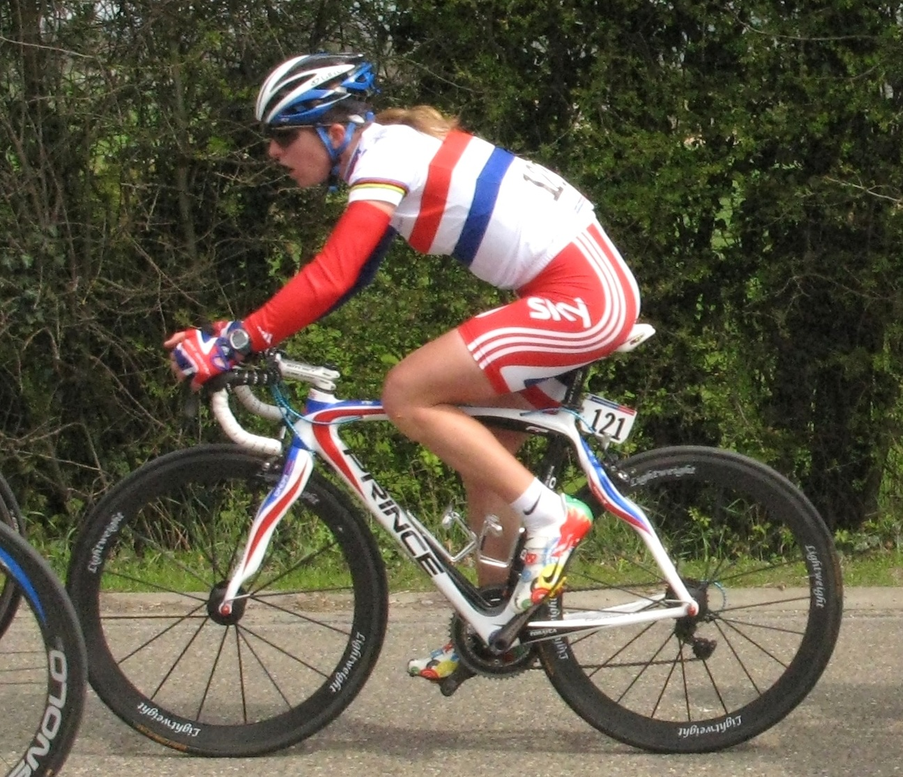 Nicole Cooke uphill in Marchin, during La Flèche Wallonne féminine 2010